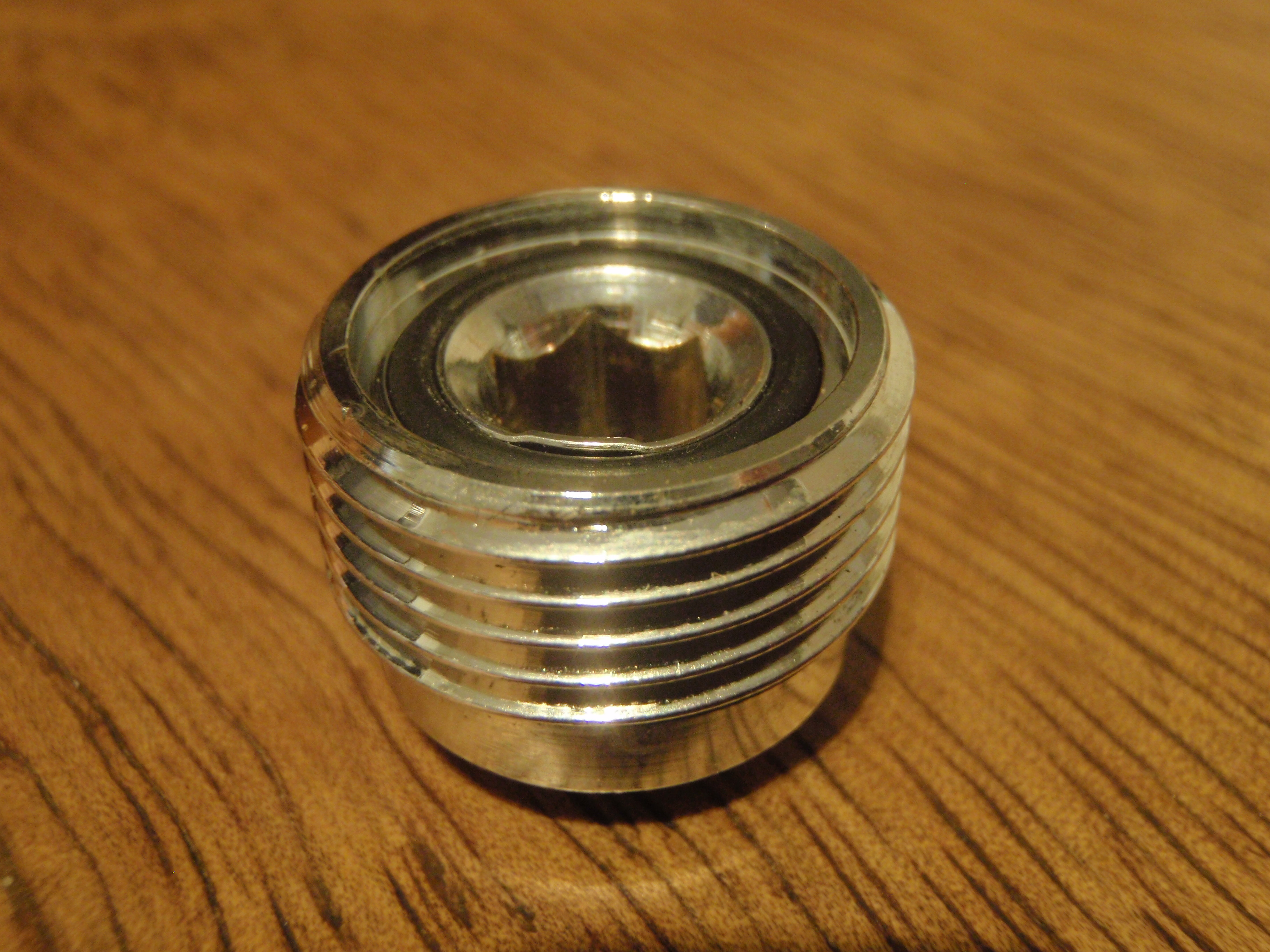 DIN insert for diving cylinder valve, The insert is screwed into a DIN valve which has been designed for the option so that a yoke fitting can be attached.